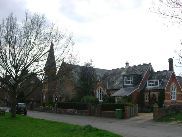 Marsh Green Church and old school house The United Reformed Church of St. John is on the left and on the right is what used to be Marsh Green Primary School and is now a private house.